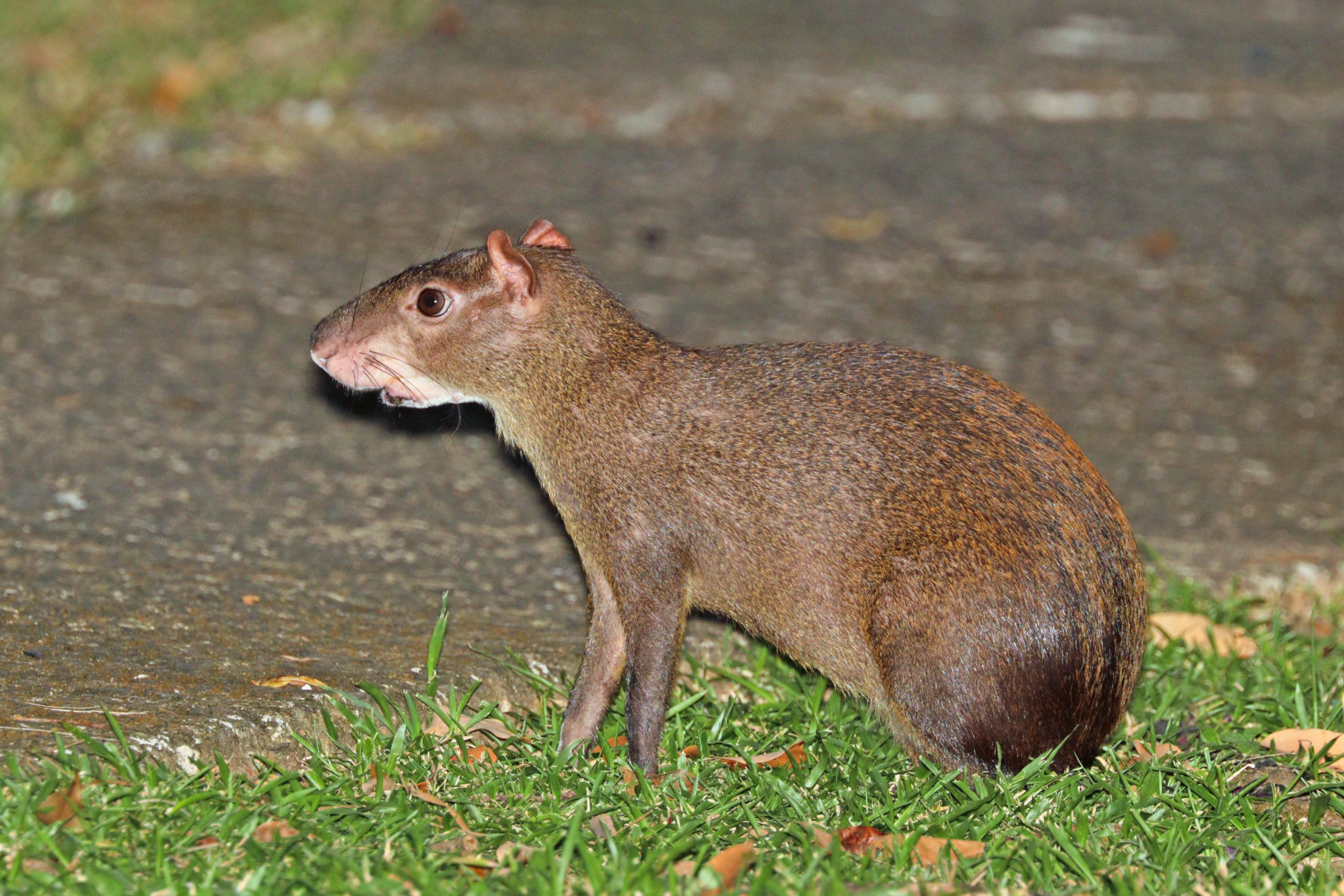 Central American agouti (Dasyprocta punctata), Soberania National Park, Panama